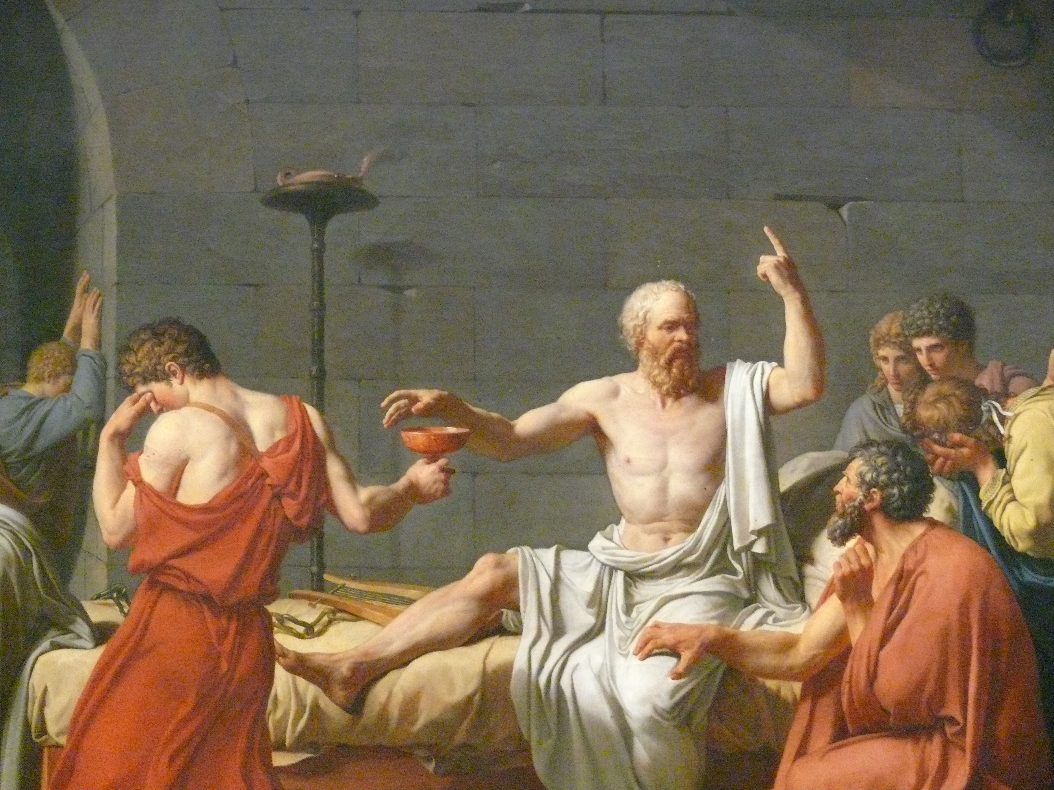 Jacques Louis David (1748–1825), The Death of Socrates in the Metropolitan Museum of Art, New York, NY. 1787 Oil on canvas 129.5 x 196.2 cm Catharine Lorillard Wolfe Collection, Wolfe Fund, 1931 Accession Number: 31.45